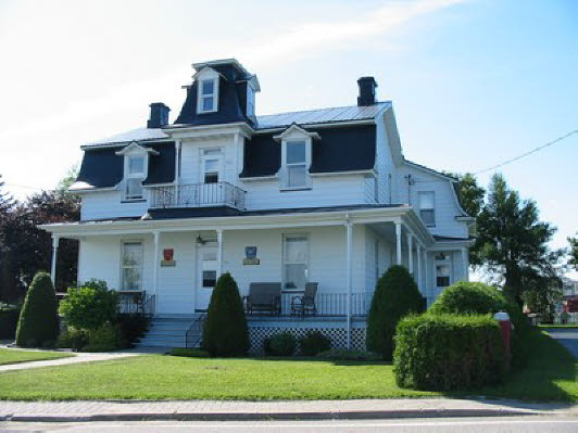 the house cinq mars